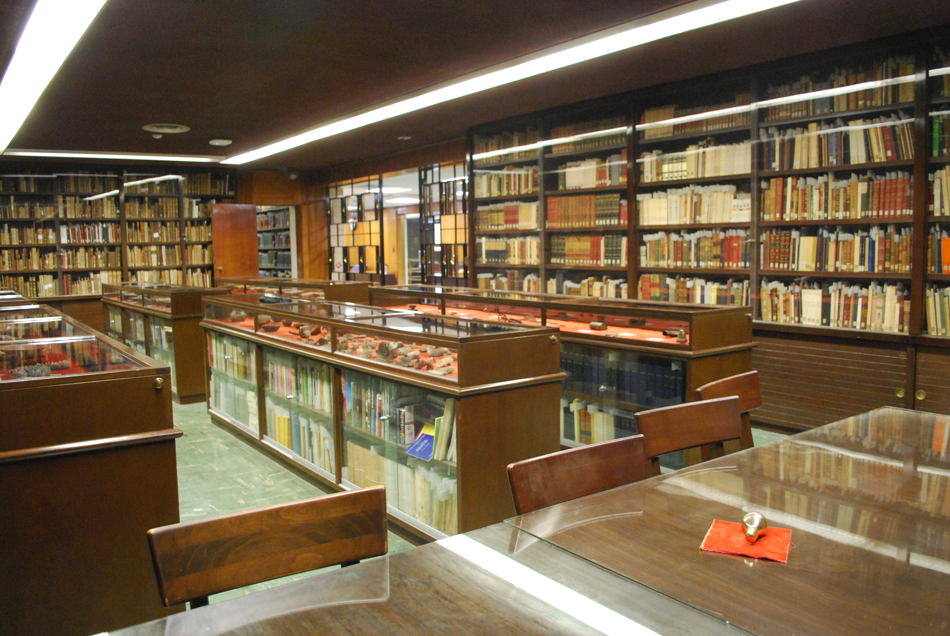 Part of the interior of the Cervantine Library inside the main administration building of ITESM, Campus Monterrey